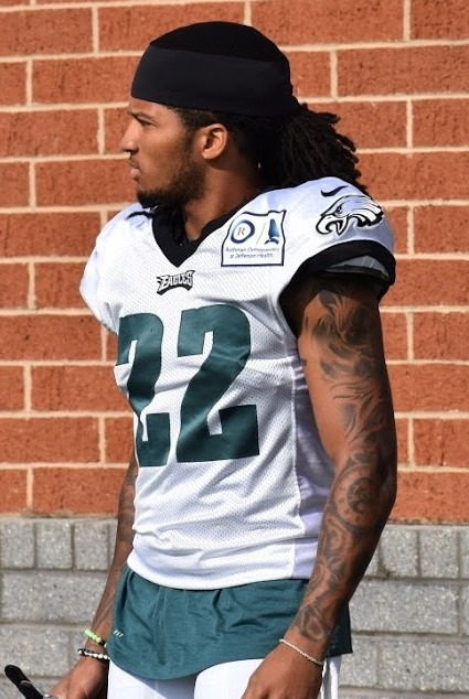 Philadelphia Eagles cornerback Sidney Jones at Training Camp in 2019